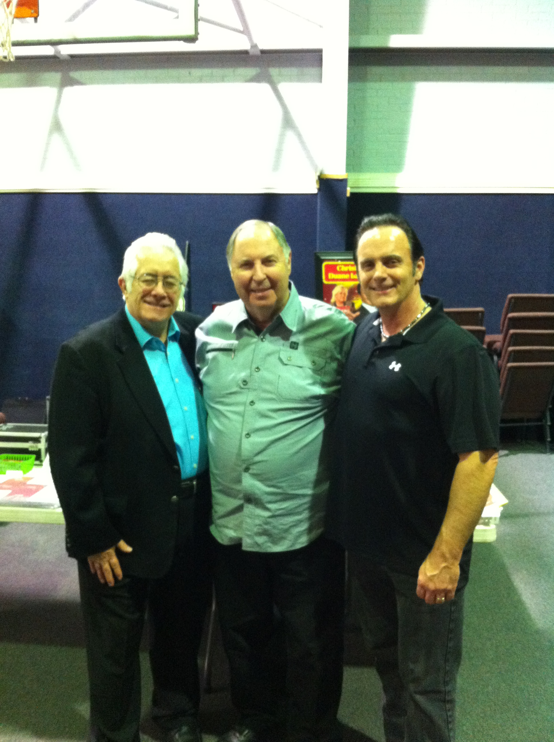 [From left to right] Magicians and former Presidents of the International Fellowship of Christian Magcians: Steve Varro, Del Wilson and Duane Laflin